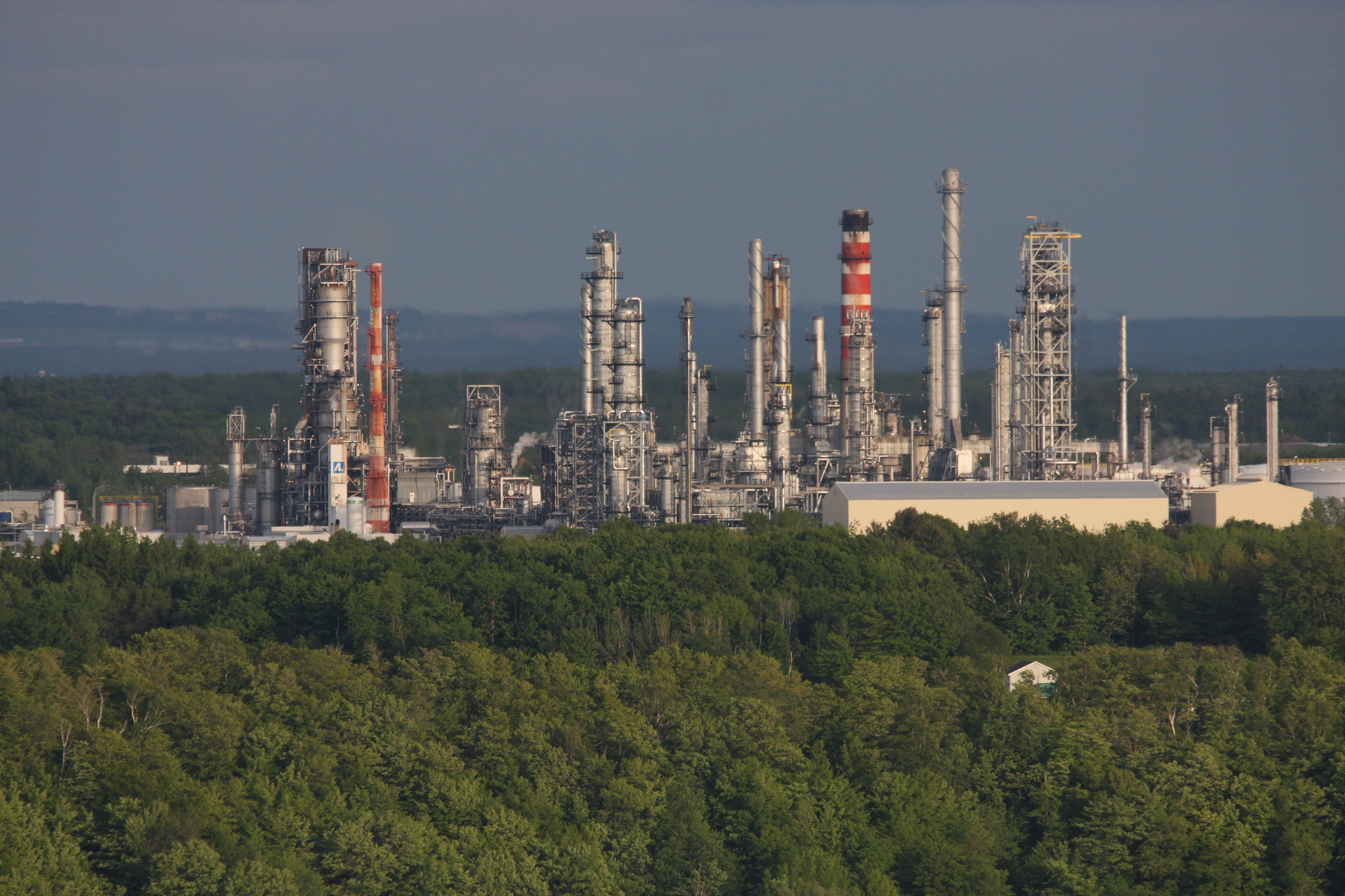 Ultramar's Jean-Gaulin Refinery in Lévis, Quebec